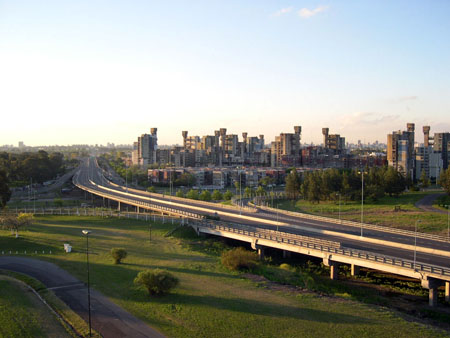 The Campora Freeway, Roca Park, and the Soldati public housing community. Villa Soldati, Buenos Aires.